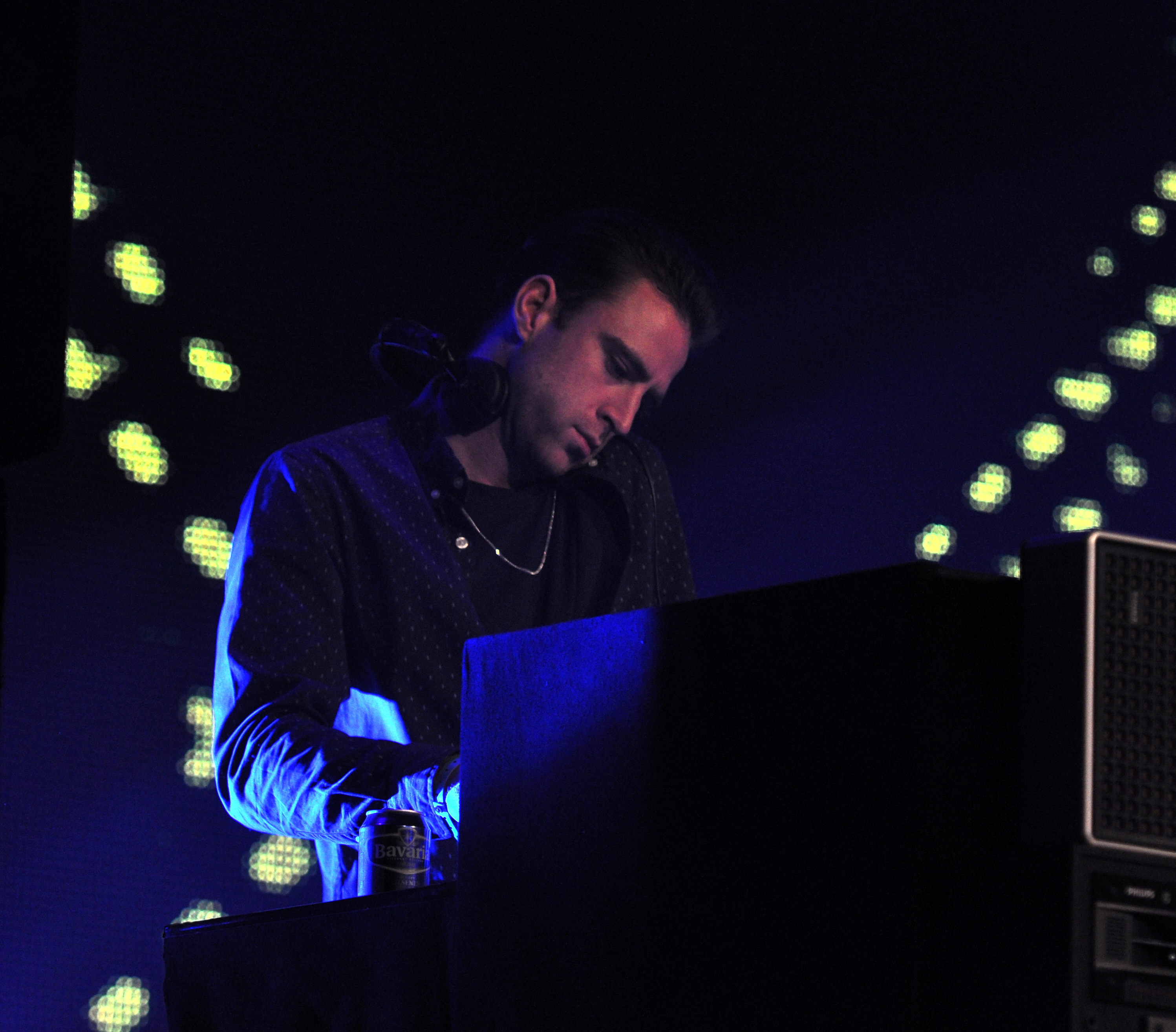 DJ Jackmaster at Paspop 2013, Schijndel, NL